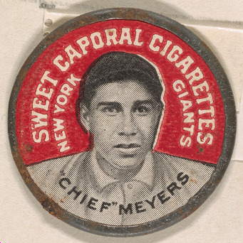 Print baseball card; Prints